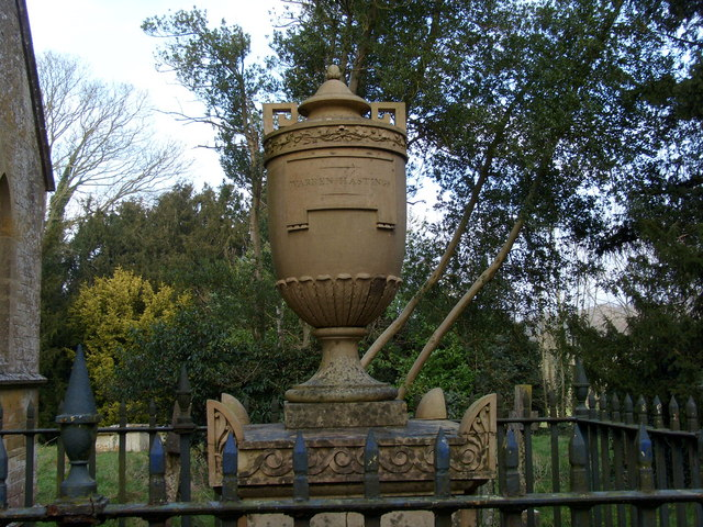 Memorial to Warren Hastings St Peters Church Daylesford